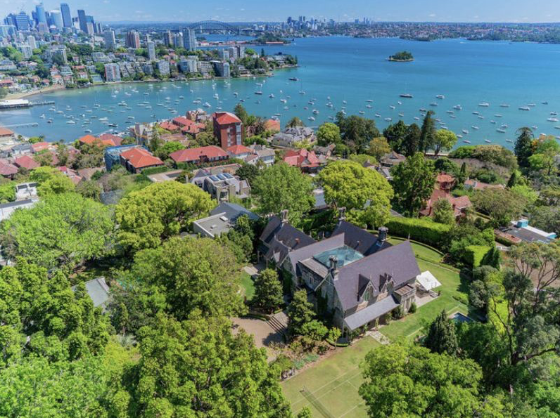 view in bellevue hill